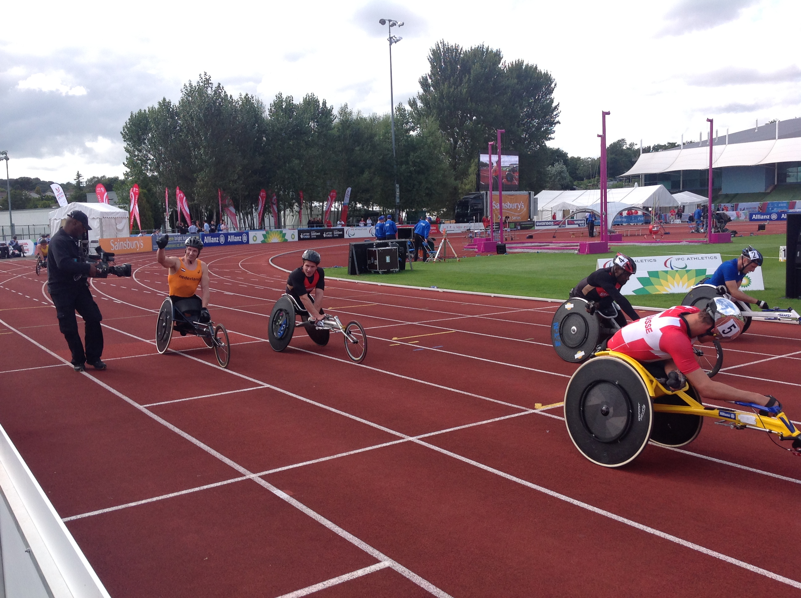 The 4th IPC Athletics European Championships. Held at Swansea University Stadium in Swansea, Wales. Kenny van Weeghal of the Netherlands celebrates with arm aloft after winning the Men's 400m T54 final. To van Weeghal's left is silver medallist Marc Schuh of Germany, while other athletes shown include Marcel Hug (4), Julien Casoli (2) and Alhassane Balde (4).